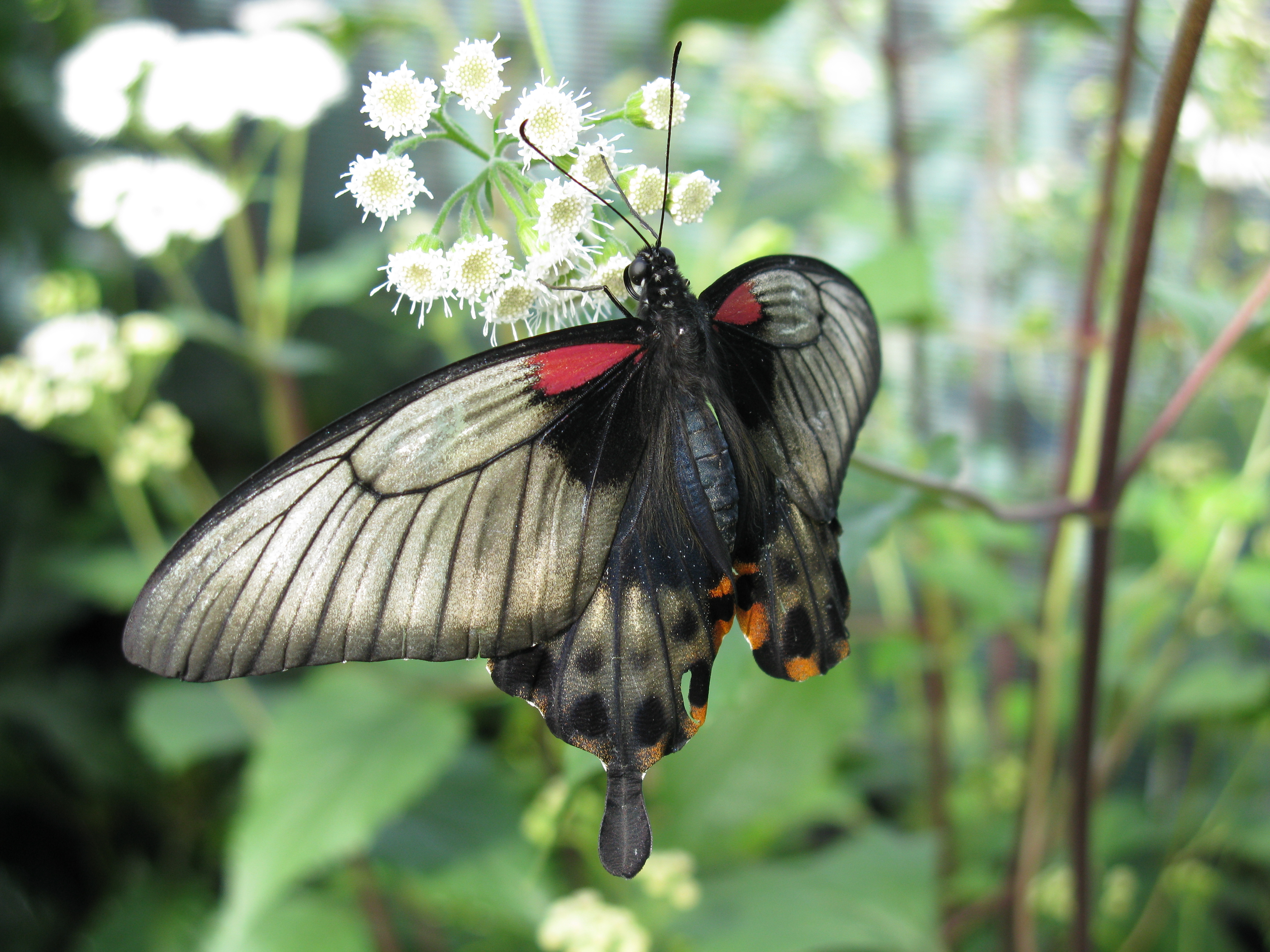 A Great Mormon(Papilio memnon) at the Montreal Botanical Garden.